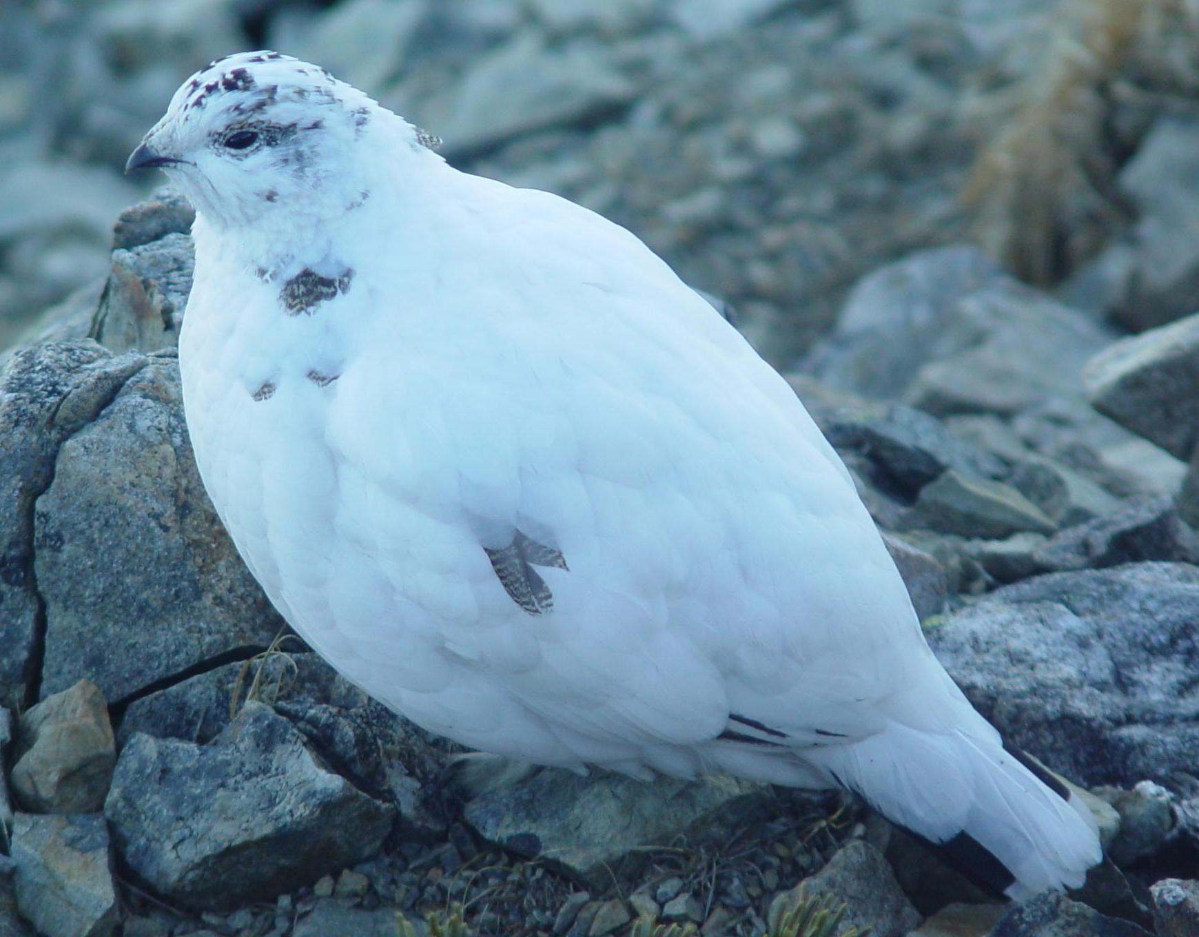 Rock Ptarmigan (Lagopus muta japonica, Lagopus mutus japonicus) , winter plumage in Mount Kamikōchi, Japan.